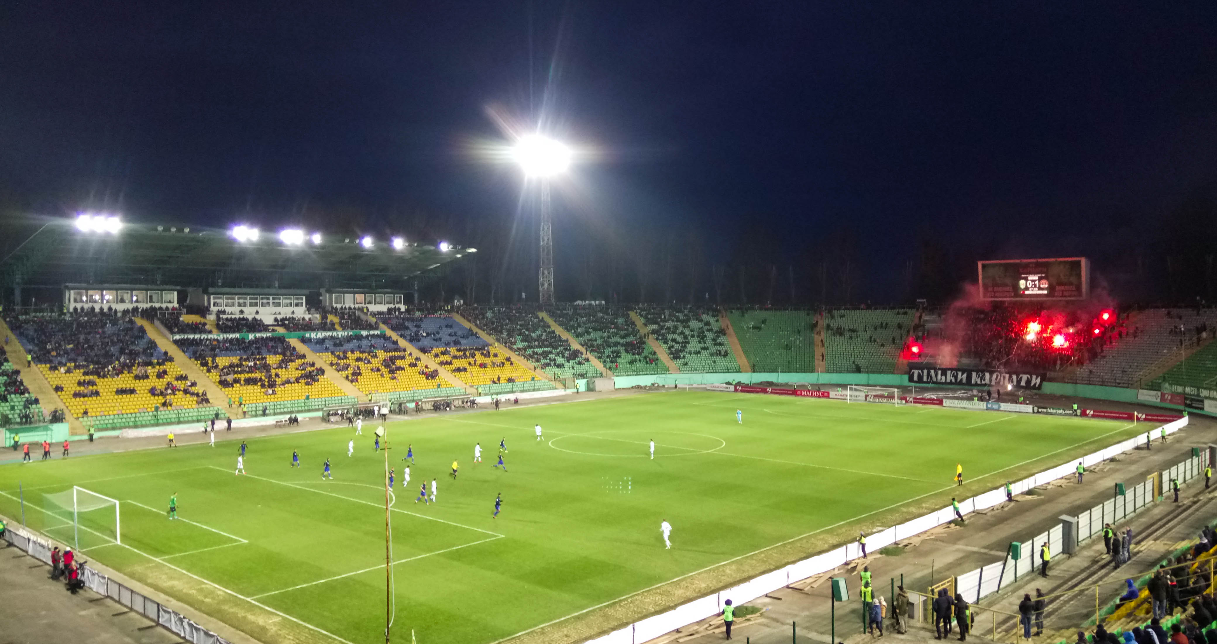 Ukrainian Premier League. Ukraina Stadium. March 3, 2019. "Karpaty" - "Lviv" (0:1). Lviv derby. Second half.